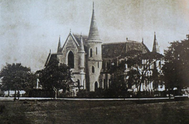 Old Campus of The Daly College, Indore. Taken from